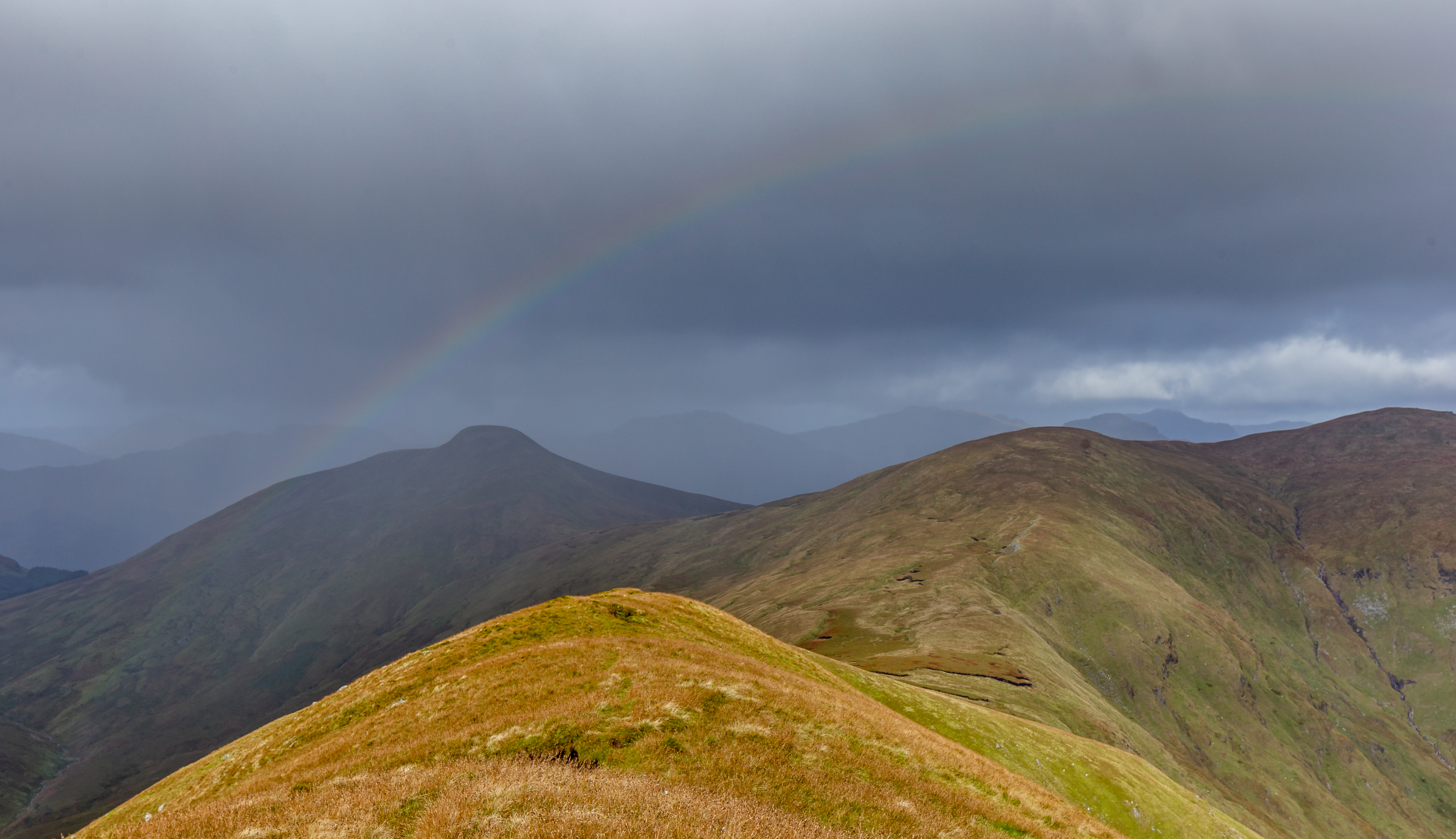 Rainbow over Cruach an t-Sithein. Luss Hills, Scotland